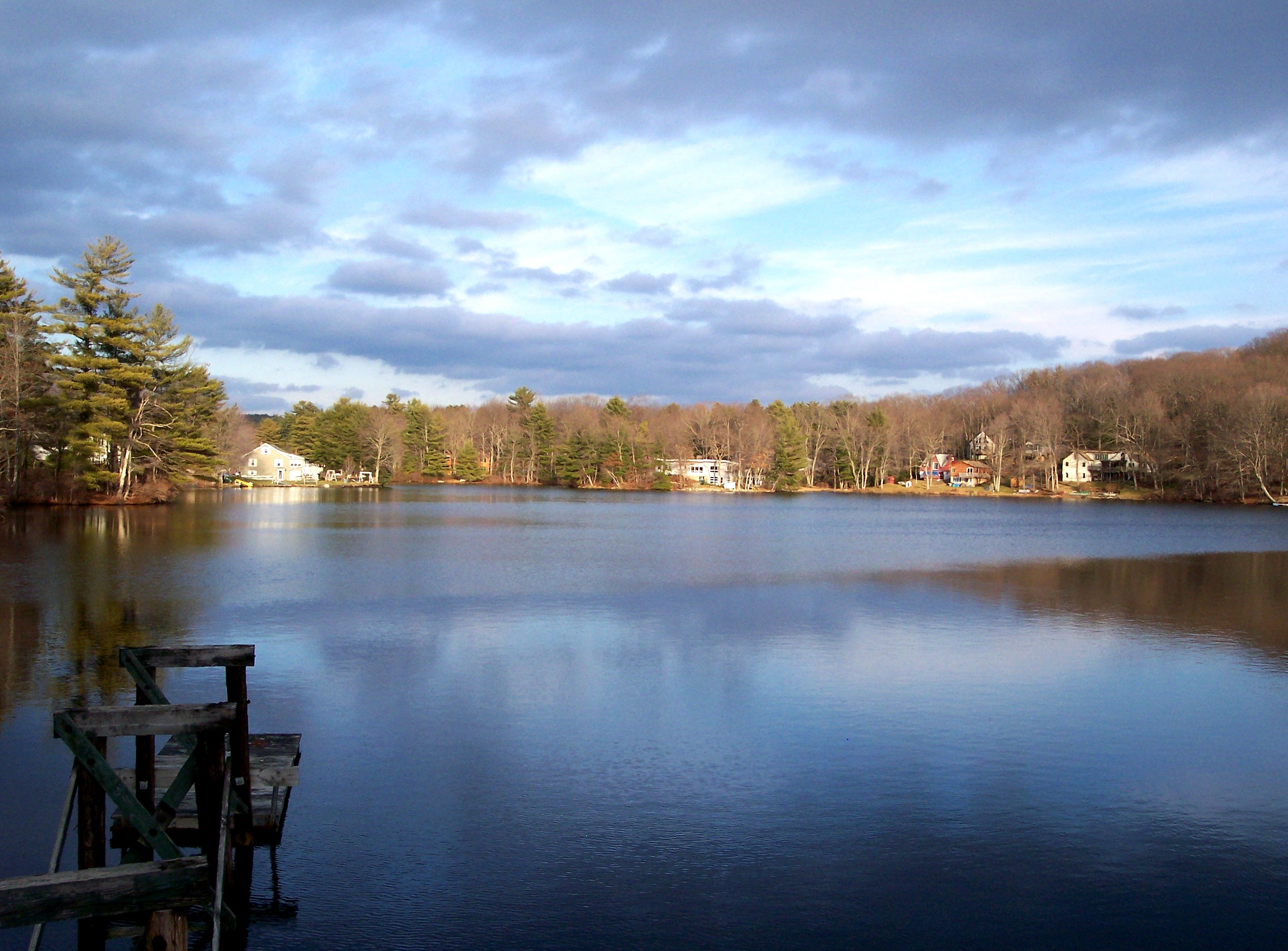 Thompsons Pond in North Spencer, Massachusetts. Photo by Richard B. Johnson